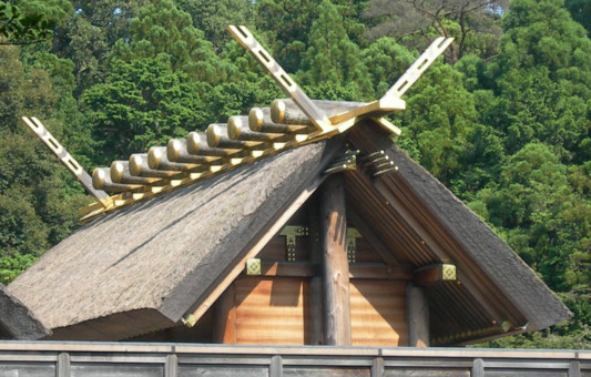 The thatched roof of a Shinto shrine part of Ise Shrine, photo cropped to emphasize details of the roof